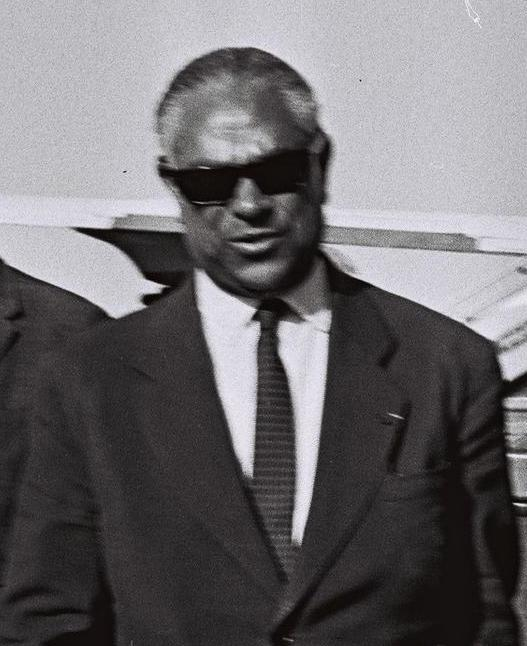 Pres. of the French Senate G. Monnerville arriving at Lod airport for the inauguration ceremony of the new Knesset building in Jerusalem.